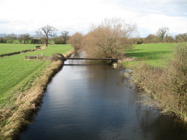 Pipeline crossing the Stroudwater Canal, near to Whitminster, Gloucestershire, Great Britain. The start point, end point and contents of this pipe crossing the disused Stroudwater Canal are officially a mystery! Quite what will happen to it if and when this part of the canal is restored is also uncertain. It's also a bit of a mystery which grid square the pipe crossing is in, but I've plumped for this one.